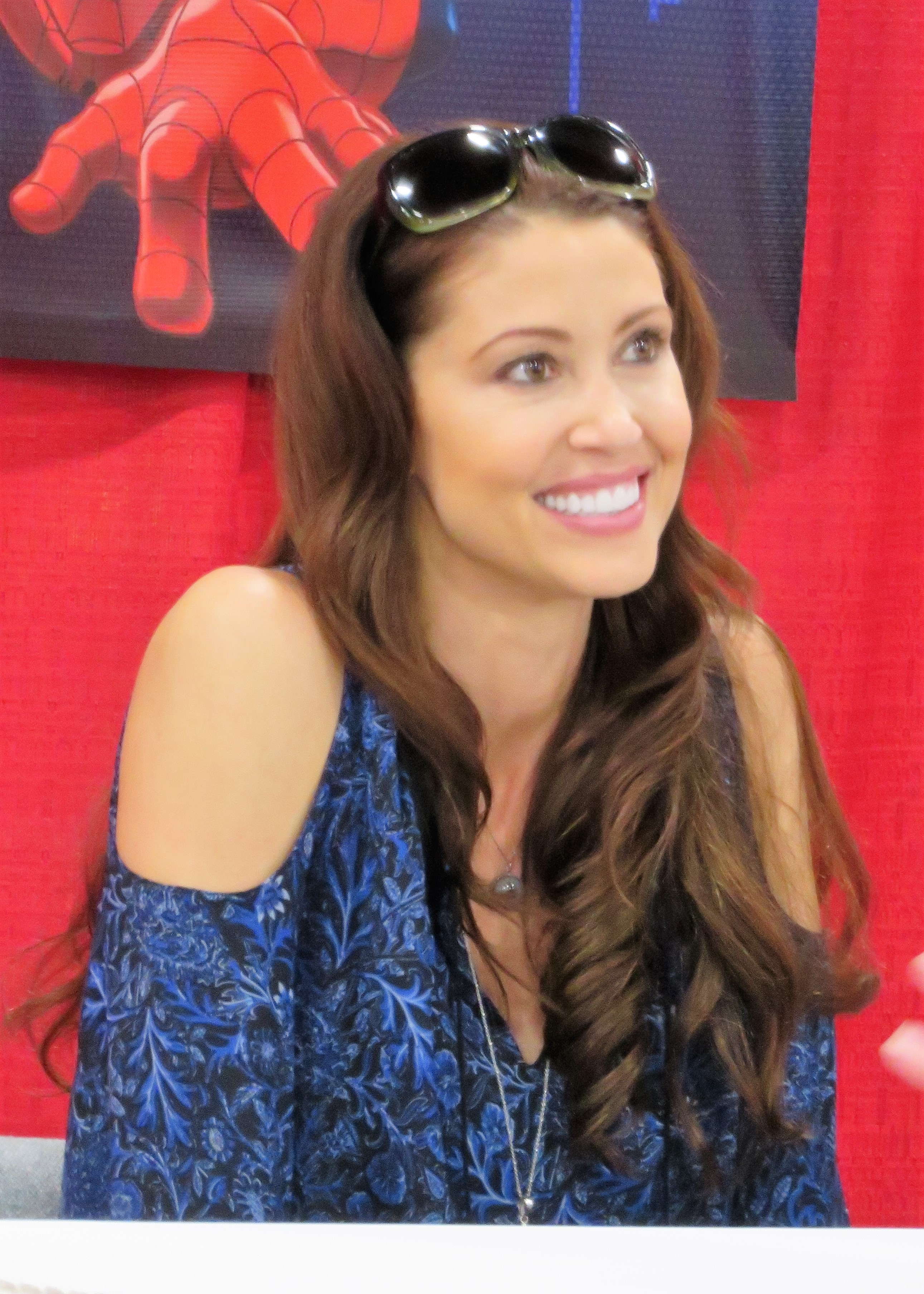 Shannon Elizabeth 04